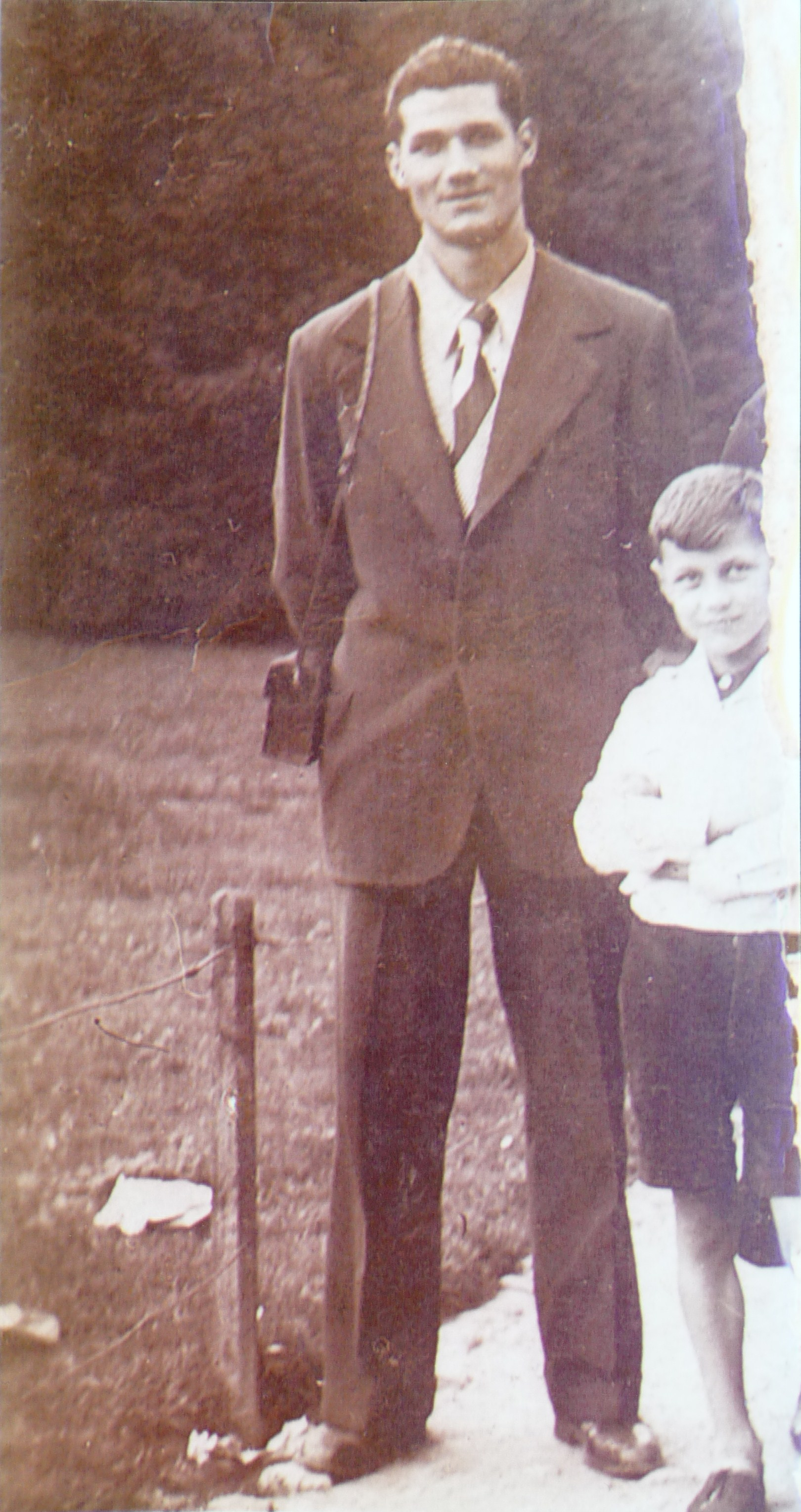 Rossi Italo con il fratello minore Luigi